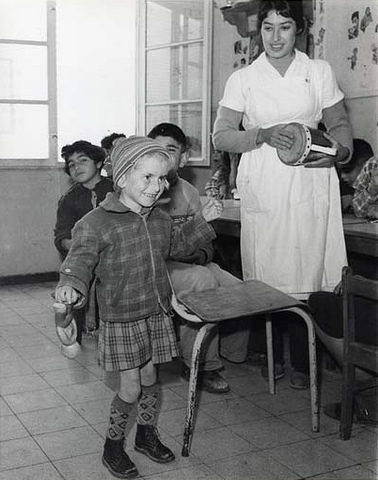 Child dances at JDC/Malben-supported Swedish Village for special needs children in Jerusalem in the early 1960s. Today, JDC’s activity on behalf of individuals with disabilities includes integrated camps in the former Soviet Union, Centers for Independent Living in Israel, and a wheelchair program in Morocco.